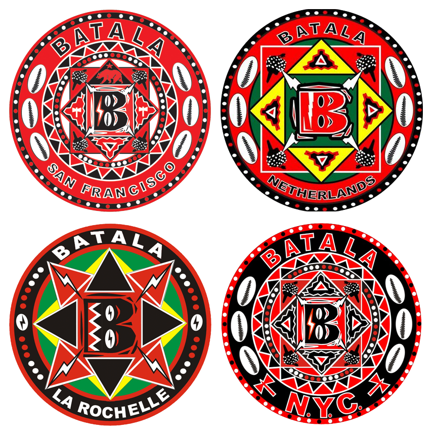 Differences in logos for Batala worldwide